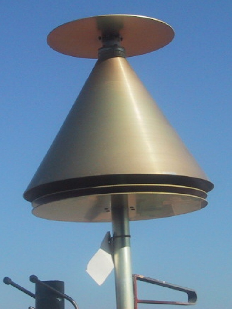 A discone antenna for the military airband (225-400 MHz).